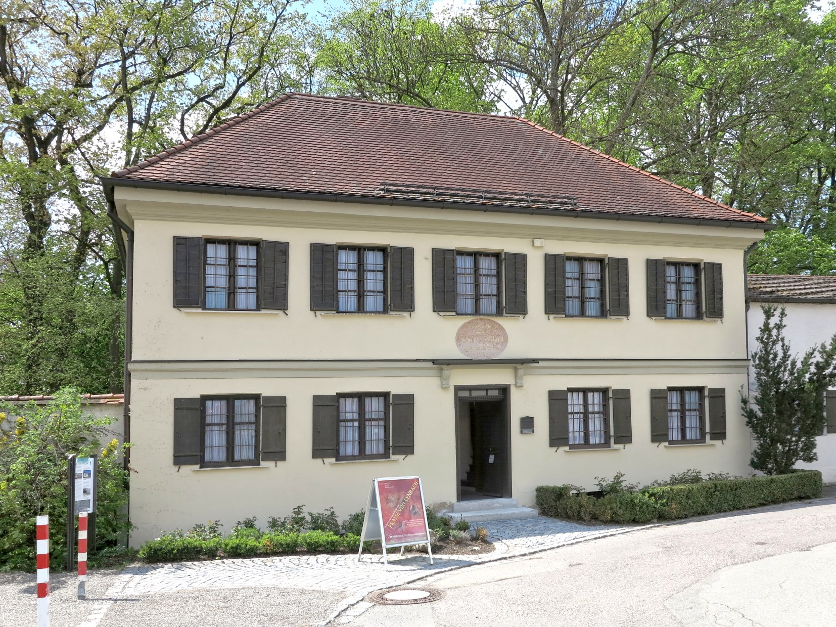 Museum of Painter Lenbach